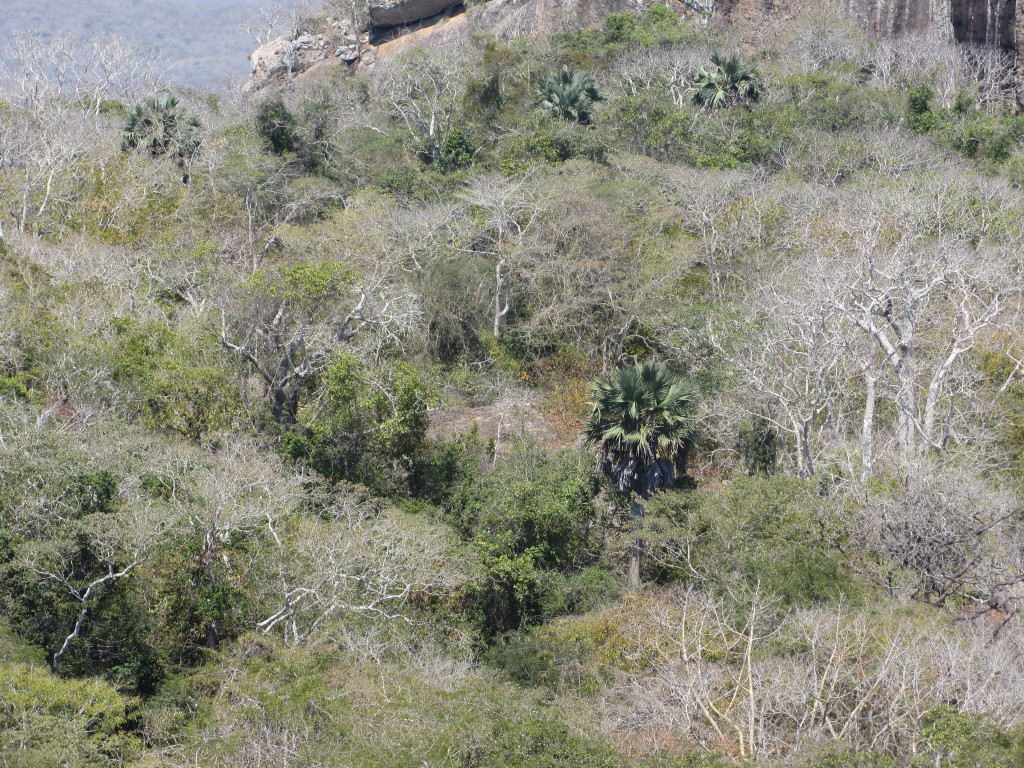 It looks like the camera is not working well. Not really, the landscape is just scorched, typical of the dry season. Mount Yokolo (Ancuabe District in Northern Mozambique).